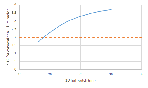 Normalized image log-slope (NILS) vs 2D pitch assuming 0.33 NA conventional illumination. Ref.: J. van Schoot et al., Proc. SPIE 9422, 94221F (2015).